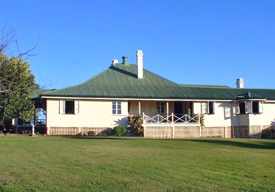 Caboonbah homestead, home of H.P. Somerset